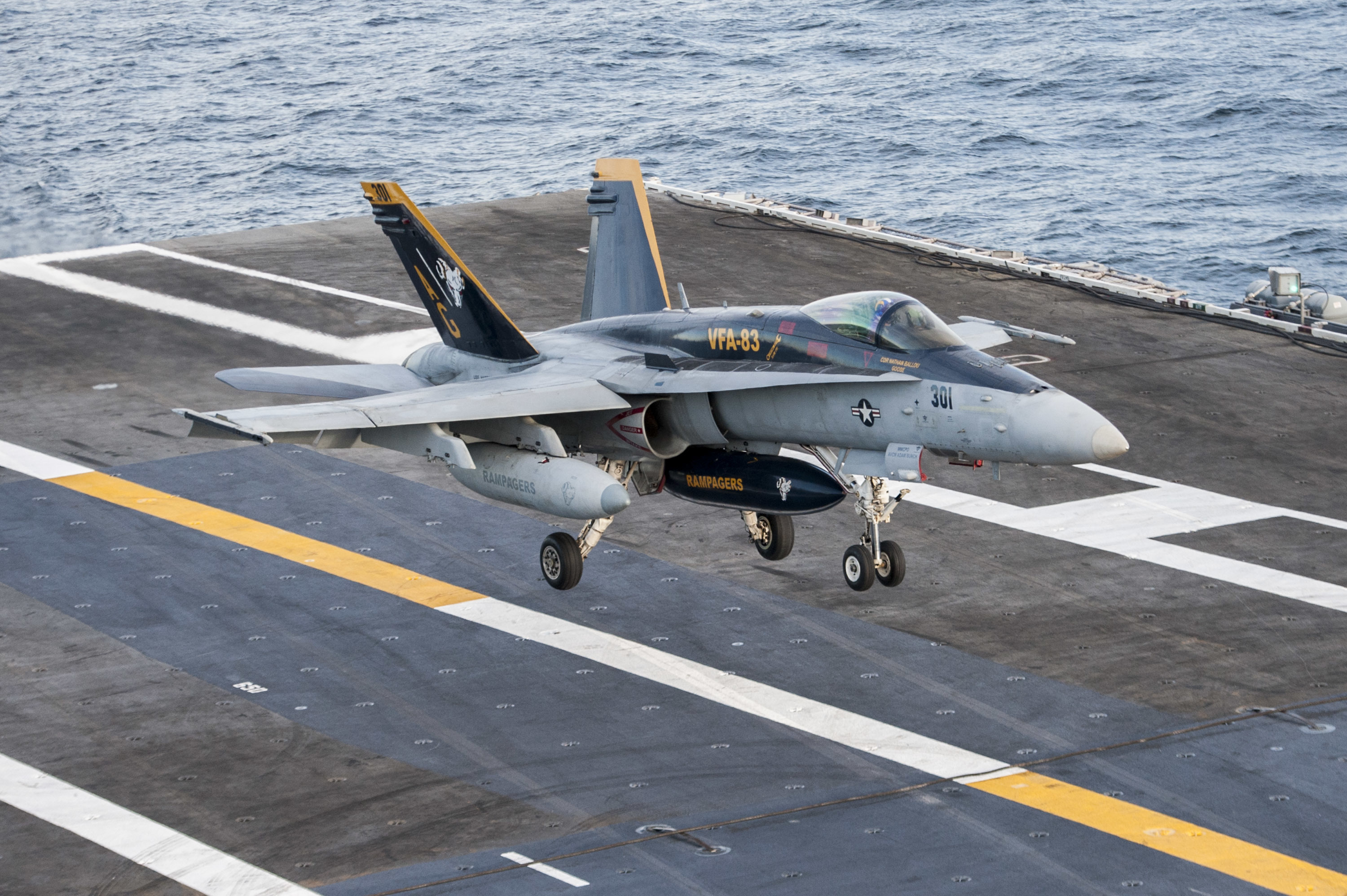 A U.S. Navy McDonnell Douglas F/A-18C Hornet, assigned to Strike Fighter Squadron 83 (VFA-83) "Rampagers", lands on the flight deck of aircraft carrier USS Harry S. Truman (CVN-75) in the Atlantic Ocean. The Harry S. Truman Strike Group departed Naval Station Norfolk, Virginia (USA), to deploy in support of maritime security operations and theater security cooperation efforts in the U.S. 5th and 6th Fleet areas of responsibility. With CVN-75 as the flagship, strike group assets included the embarked squadrons of Carrier Air Wing 7 (CVW-7), Destroyer Squadron (DESON) 28 and ships USS Anzio (CG-68), USS Bulkeley (DDG-84), USS Gravely (DDG-107), and USS Gonzalez (DDG-66).